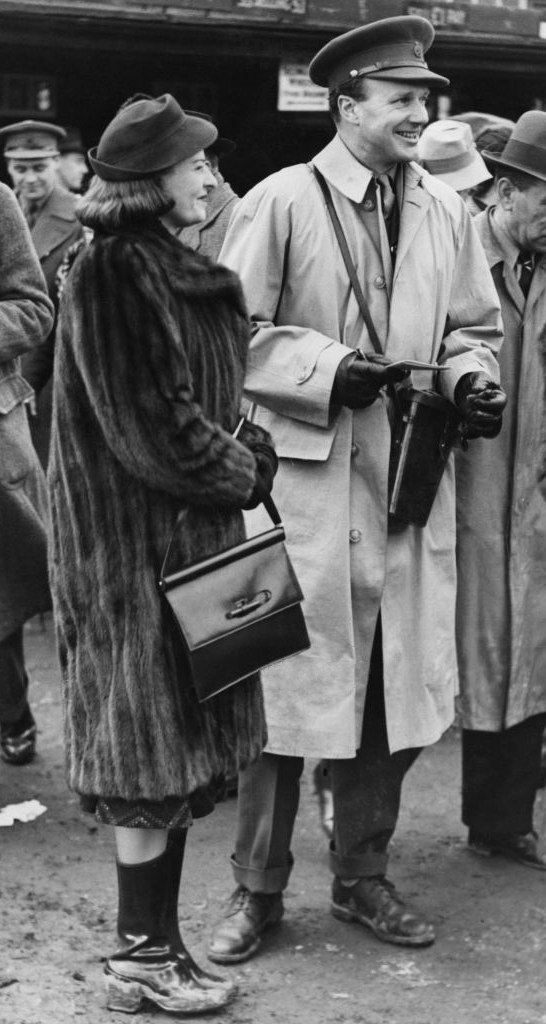 Hugh Molyneux, 7th Earl of Sefton (1898 - 1972) with American socialite Josephine Armstrong (1903 - 1980), ex-wife of Erskine Gwynne, at Plumpton racecourse, UK, 1940. They were married in 1941.